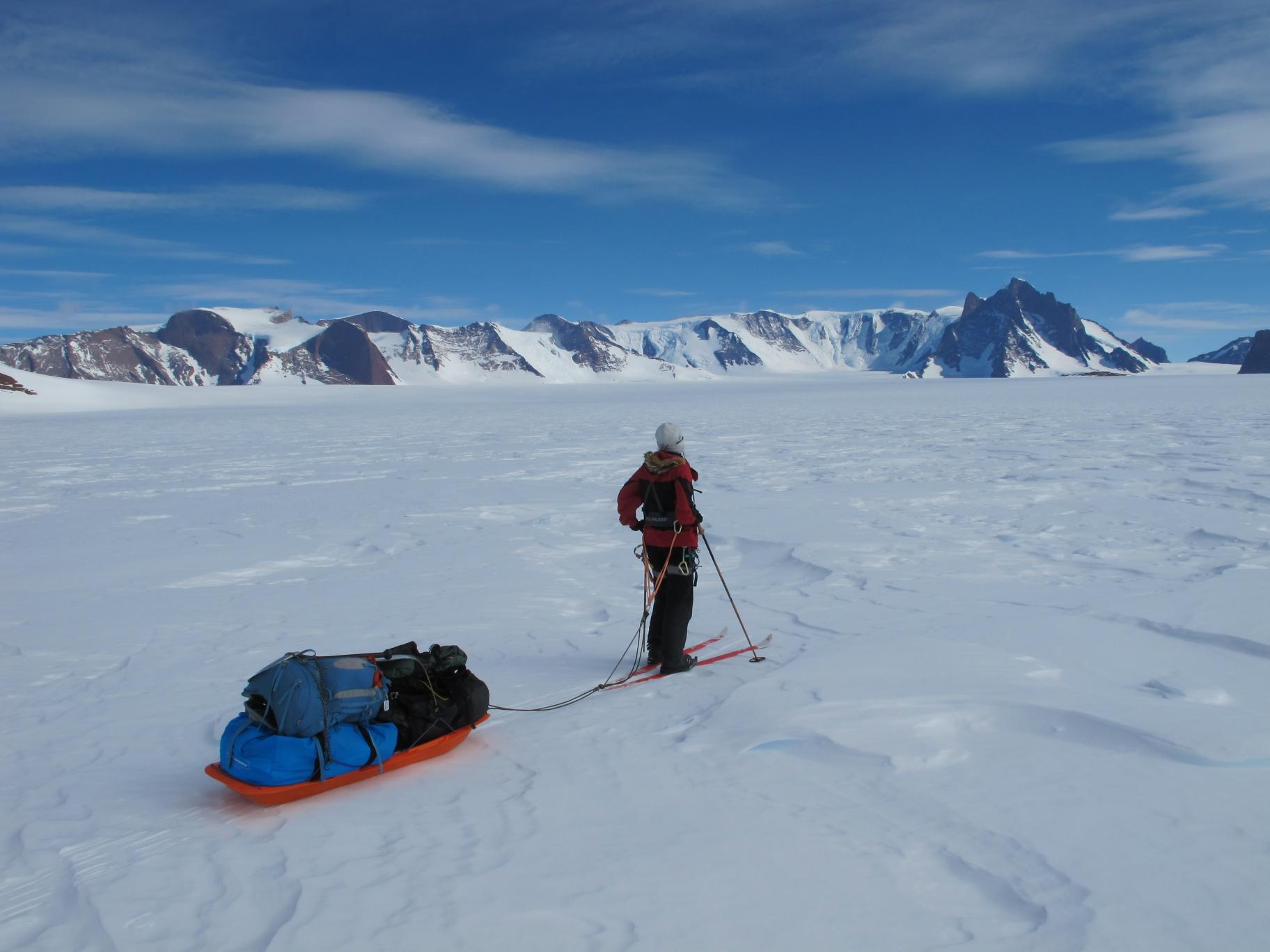 Picture of Jøkulkyrkja, the highest mountain in Dronning Maud Land. 3148 meters.